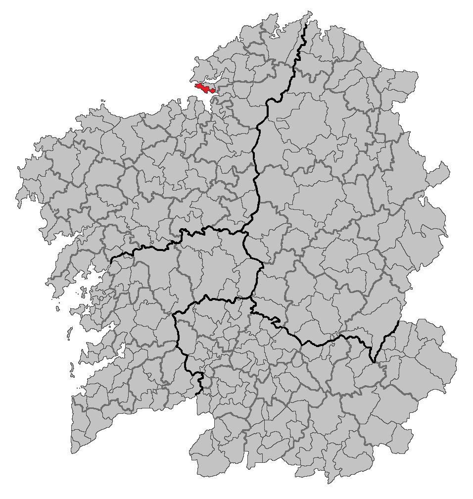 Location map of Ares, A Coruña, Galicia